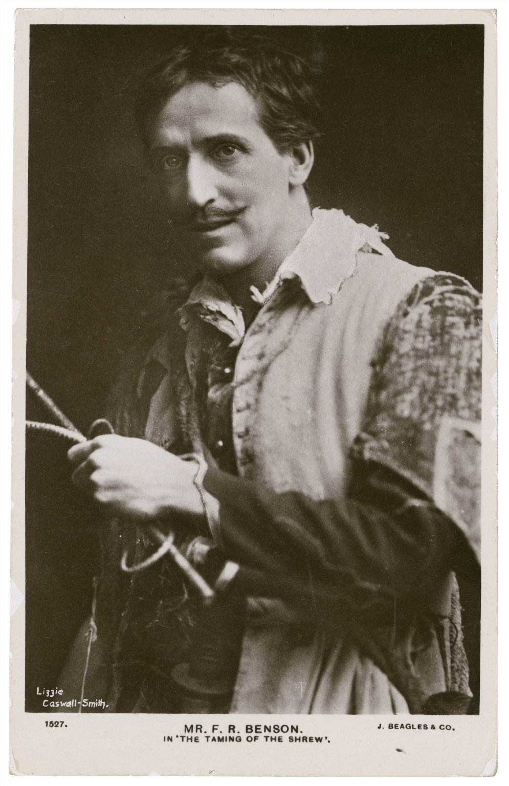 A photograph of Frank Benson as Petruchio from a 1901 performance of The Taming of the Shrew